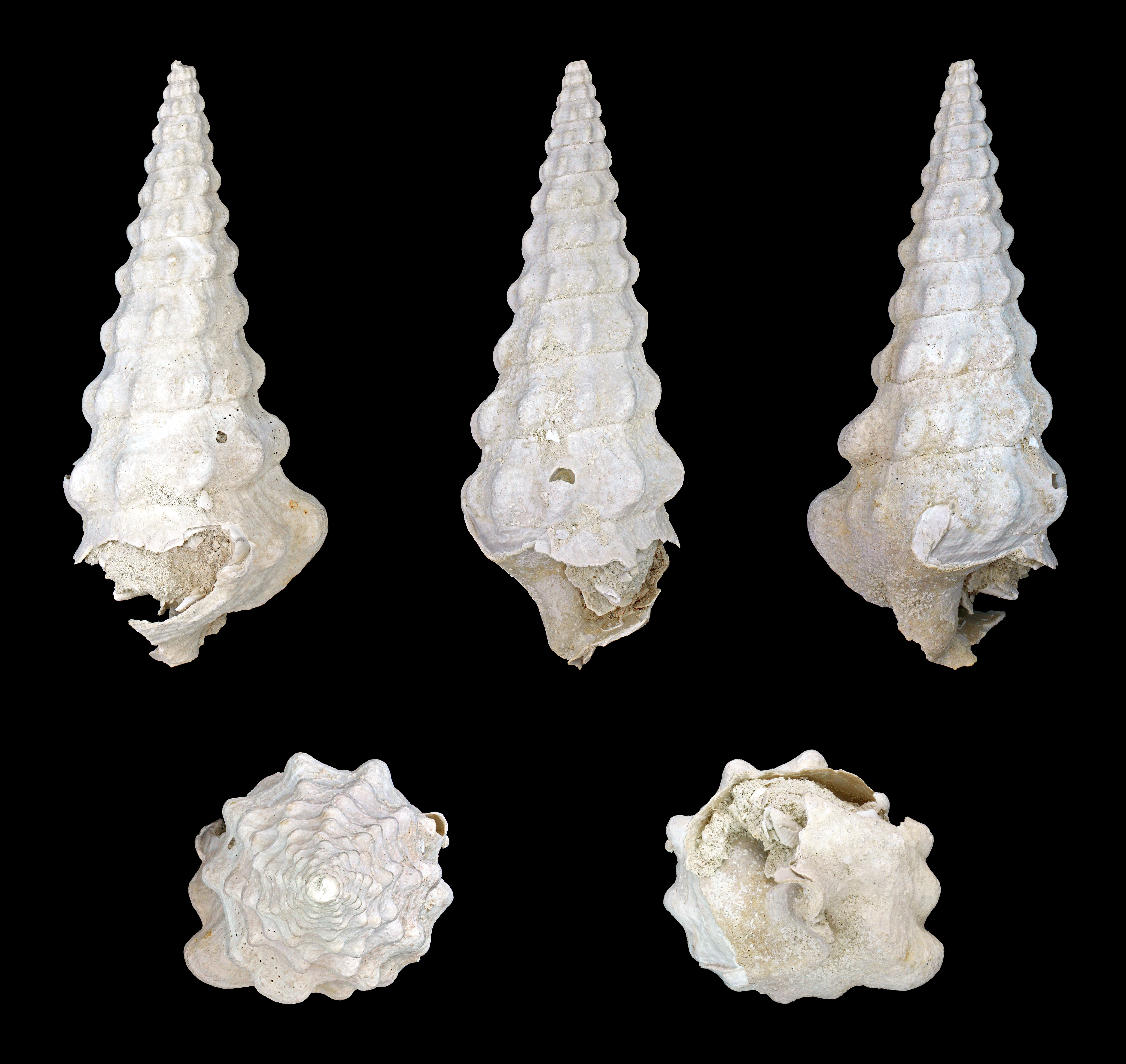 Length 8.2 cm; Tertiary, Pliocene, La Belle, Florida, USA; Shell of own collection, therefore not geocoded. Dorsal, lateral (right side), ventral, back, and front view.